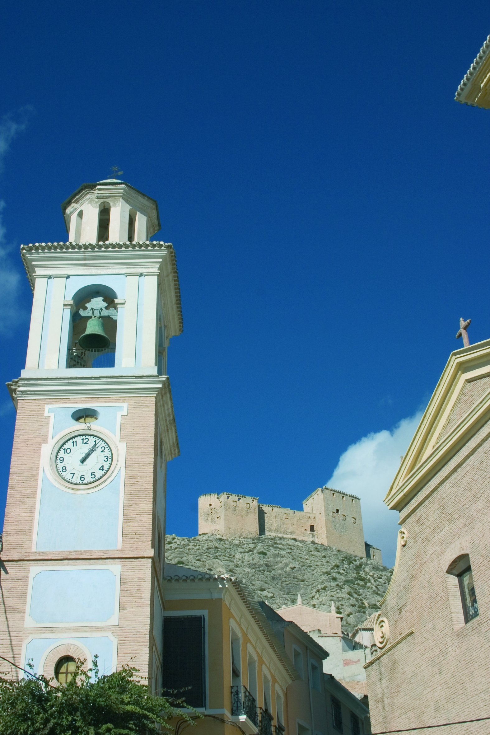 Mula castle sight.